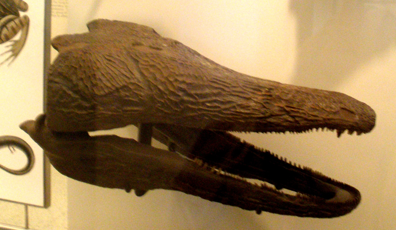 Fossil of Paracyclotosaurus davidi, a fossil amphibian DateApril 2008Sourcetook the foto on the "American Museum of Natural History" in New YorkAuthorGhedoghedoPermission (Reusing this file)